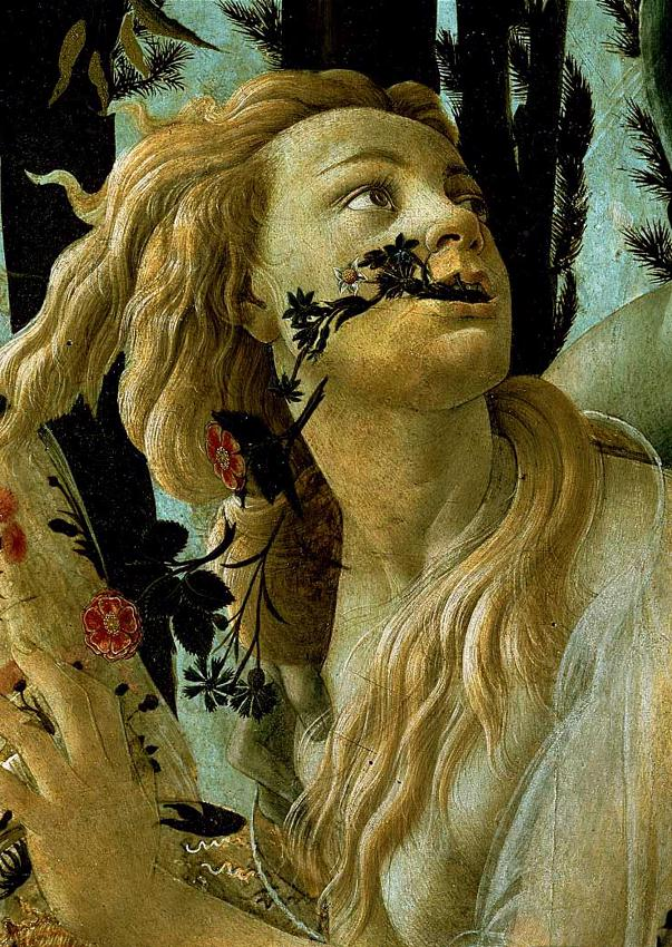 close-up of the goddess Chloris from Boticelli's Primavera